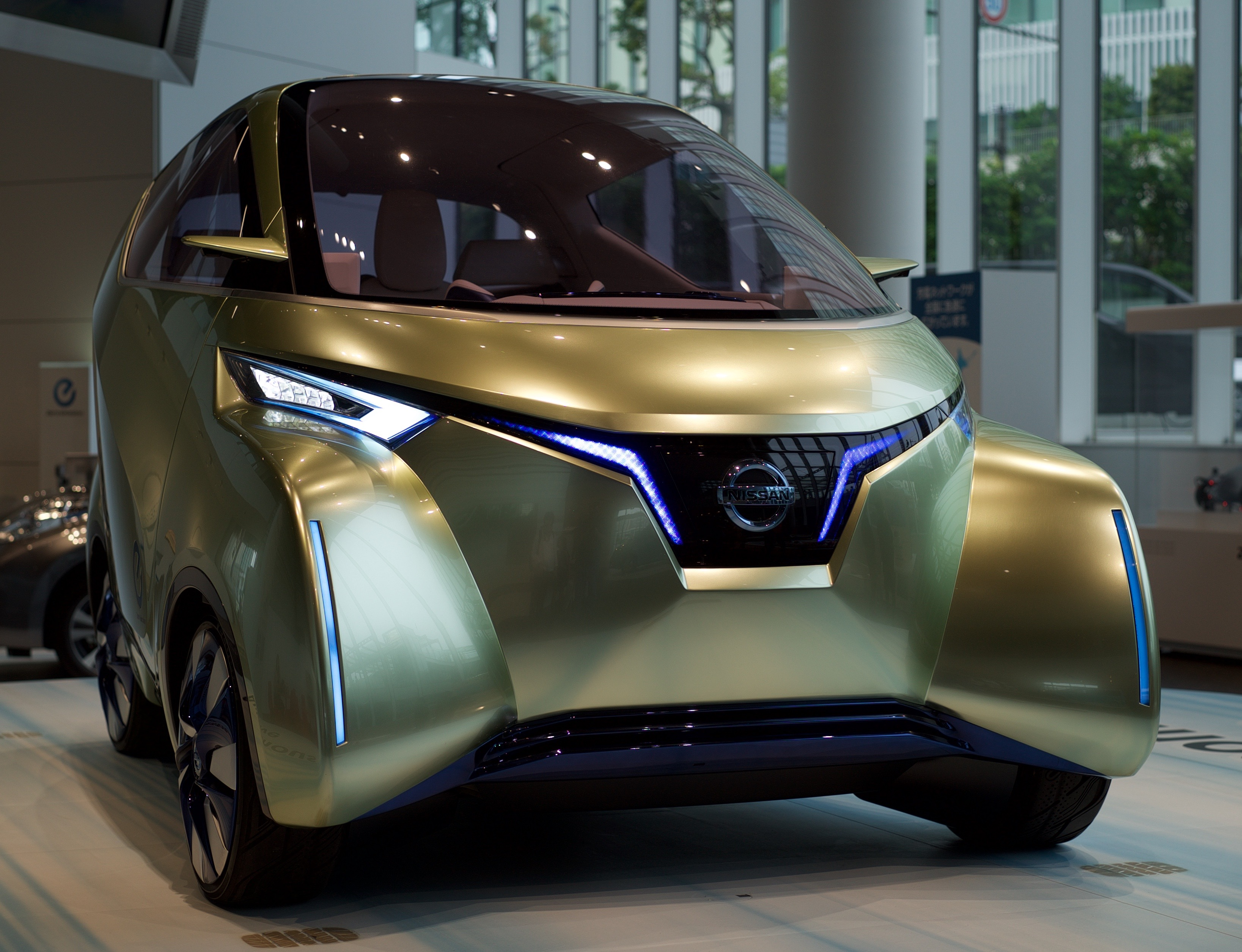 Nissan Pivo 3 front Photo made in Nissan HQ showroom in Yokohama